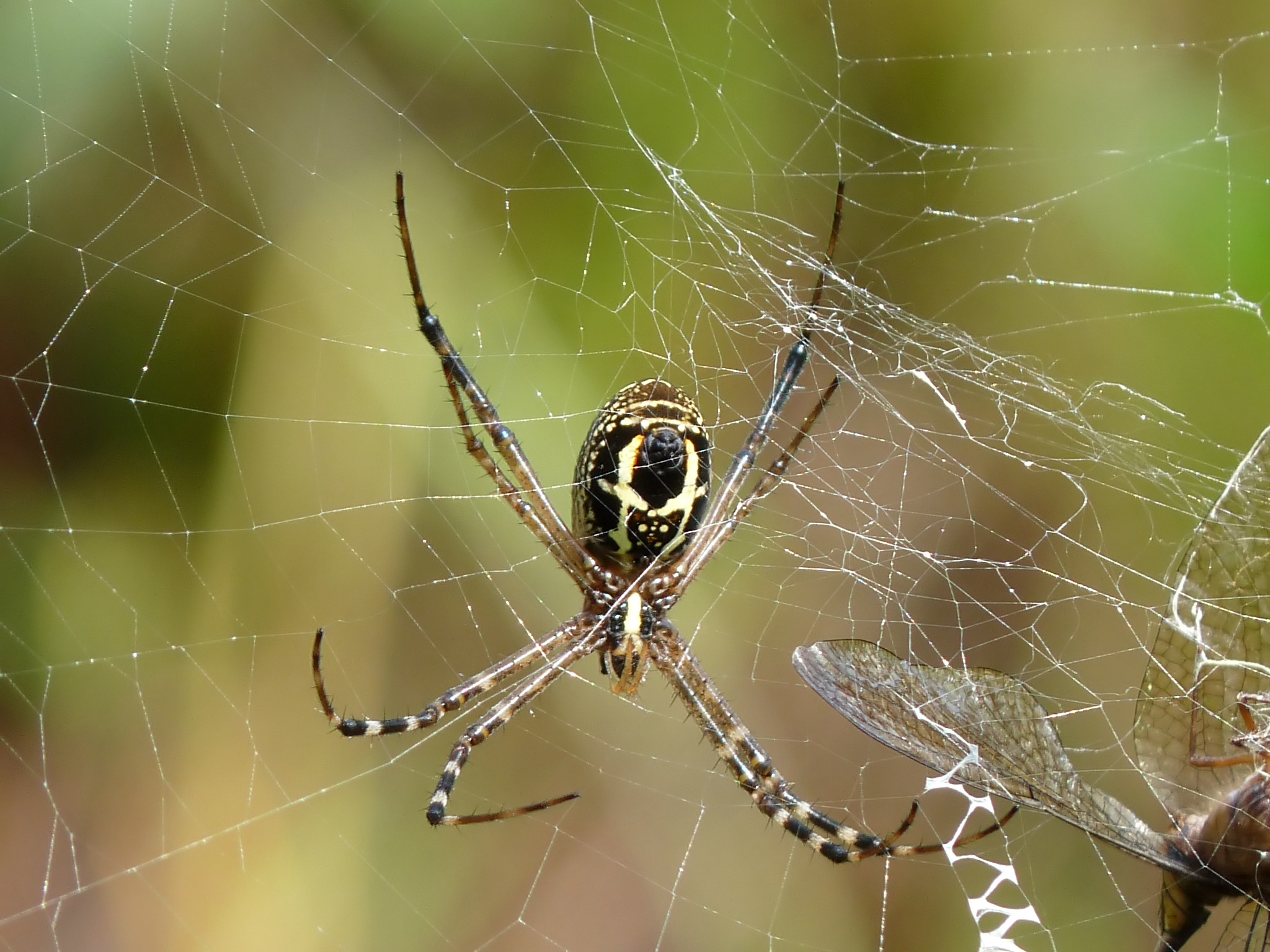 Argiope catenulata, also known as the Grass cross spider, is a species of Orb spider ranging from India to the Philippines to Papua New Guinea. Like other species of the same genus, it builds a web with a zig-zag stabilimentum. Argiope catenulata is a colorful spider. The female's cephalothorax is yellow with black eye margins. Its abdomen is oblong with a black and silvery-whitish yellow dorsal pattern. Brown patches of irregular shapes are present from the median of the opisthosoma (abdomen) to the posterior side. The legs are black with thin white rings. The male is smaller than the female. It has a brownish red to yellowish brown cephalothorax with black eye margins. Its abdomen is yellowish with a dorsal pattern as in the female. The legs are yellowish brown. They are web builders, the circular webs have zigzag webbing known as white stabilimenta making them sticky. They are common in all rice environments. They are late colonizers of rice fields and are found with their heads hanging down in their webs.